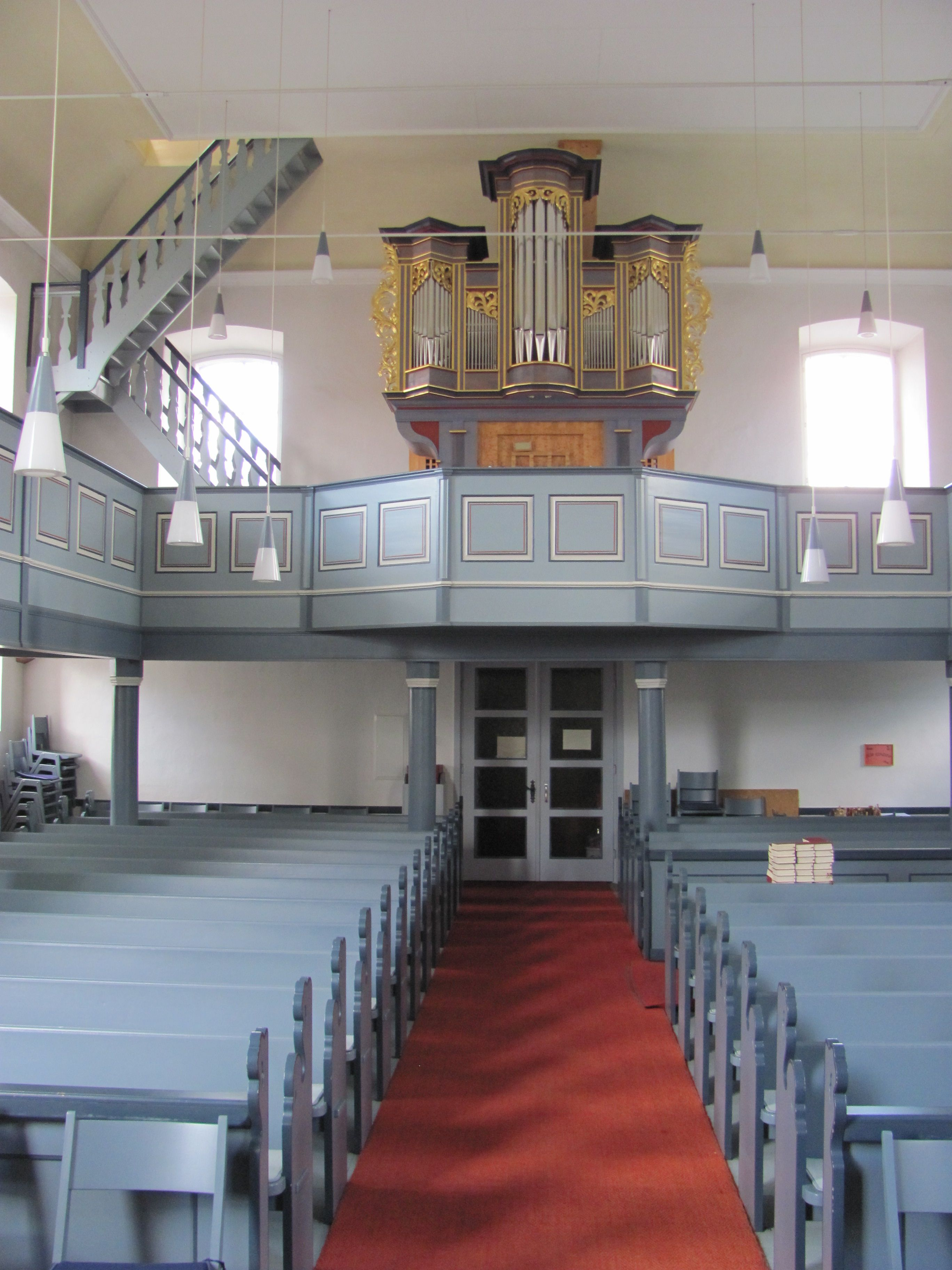 United Protestant Church, Biebergemünd-Bieber, Hessen, Germany